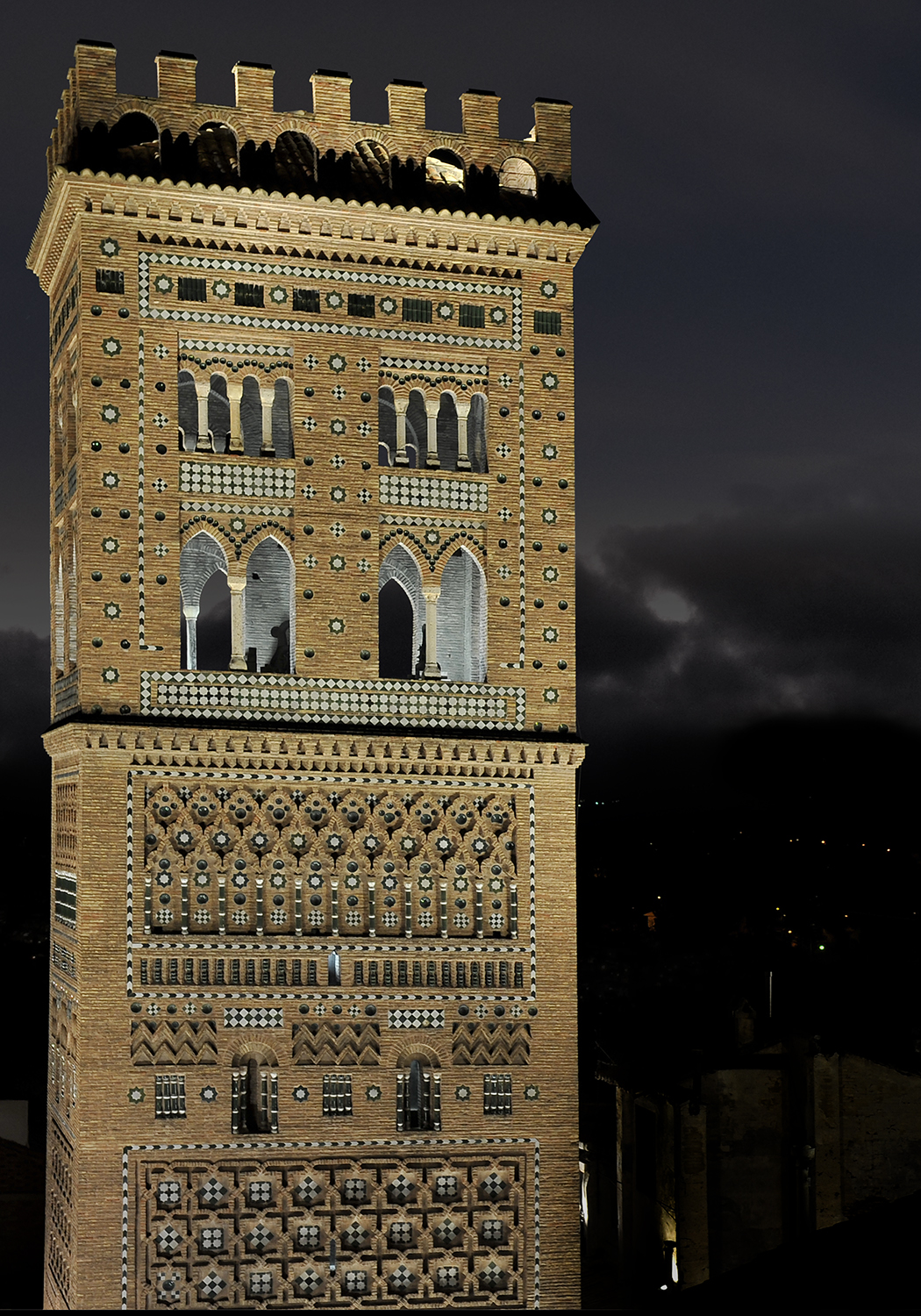 Torre mudéjar de El Salvador. Teruel